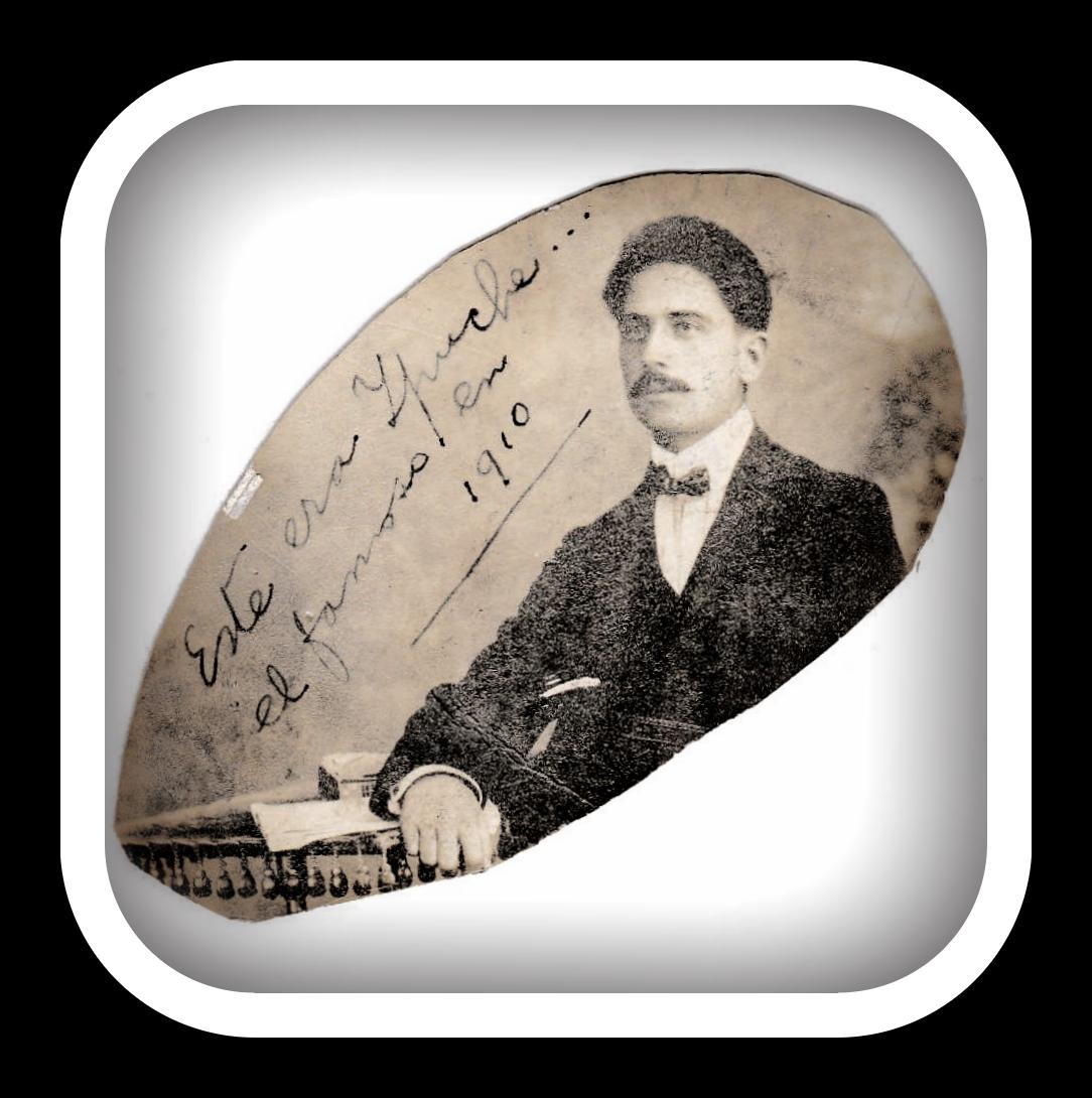 PEDRO LEANDRO IPUCHE